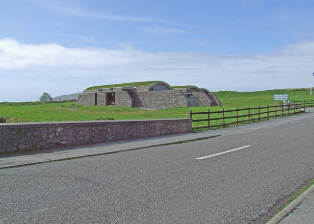 Skellig Experience Visitor attraction on Valencia Island.